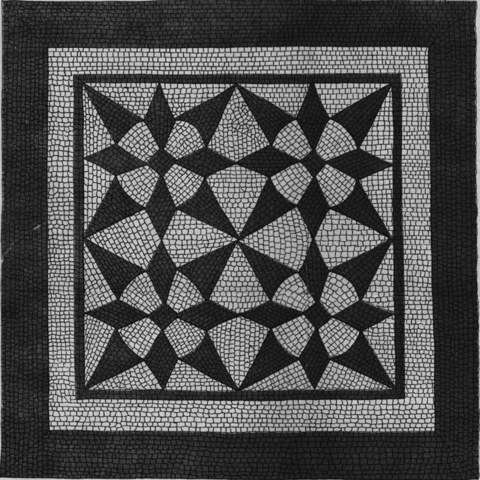 Drawing of a floor mosaic, found on a roman thermae at the town of Luz, part of Lagos municipality, in Portugal. This image was published in the work "O Archeologo Português", series I, volume XV, of 1910, provided by Direcção Geral do Património Cultural.